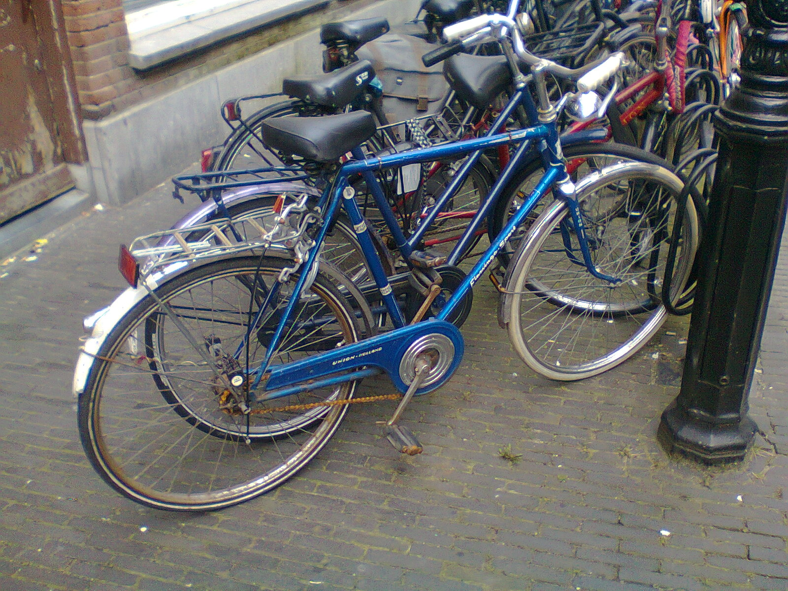 A Dutch Union bike type Flamingo Sport from 1969